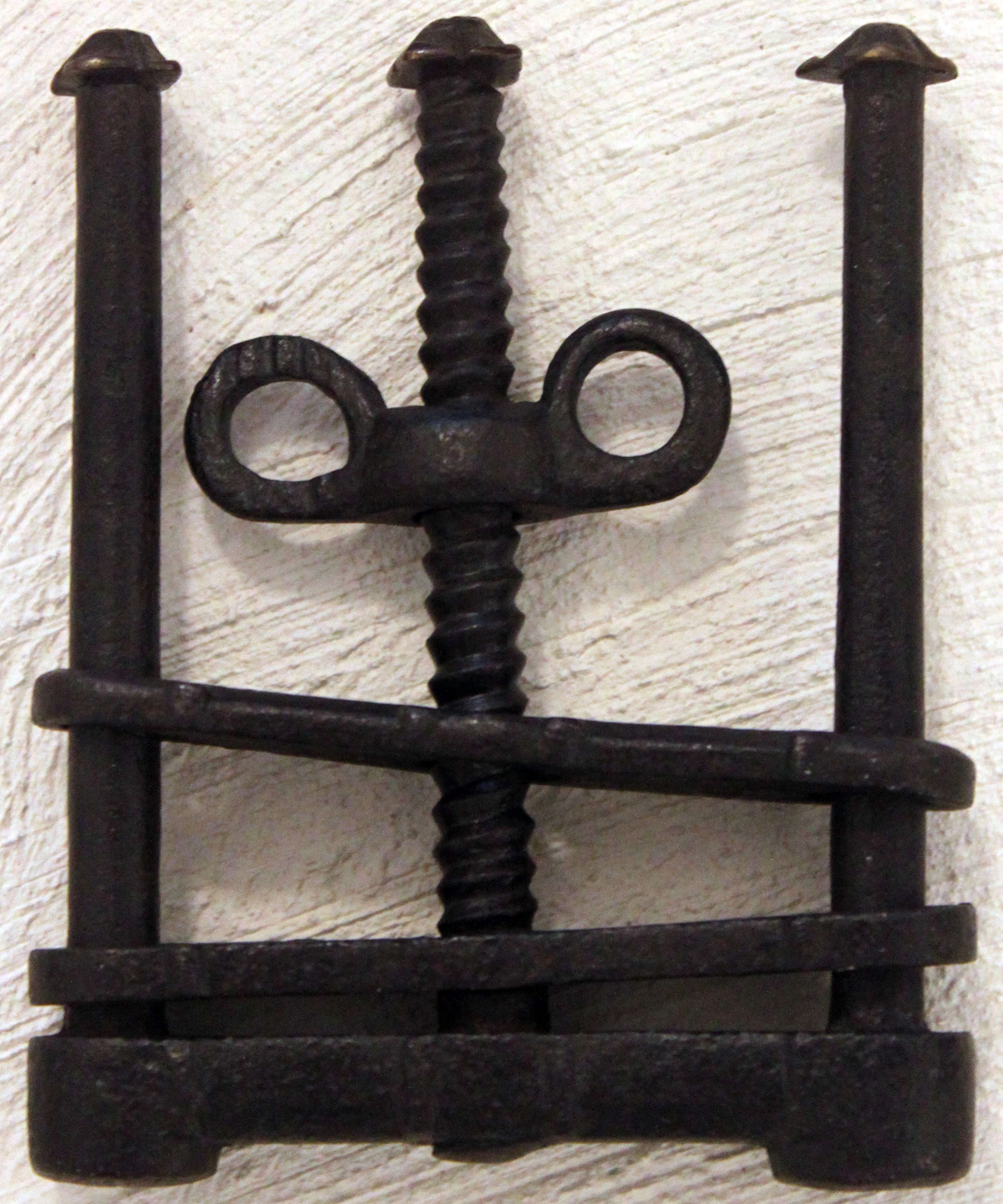 Thumb screw 17, Century; Märkisches Museum, Berlin